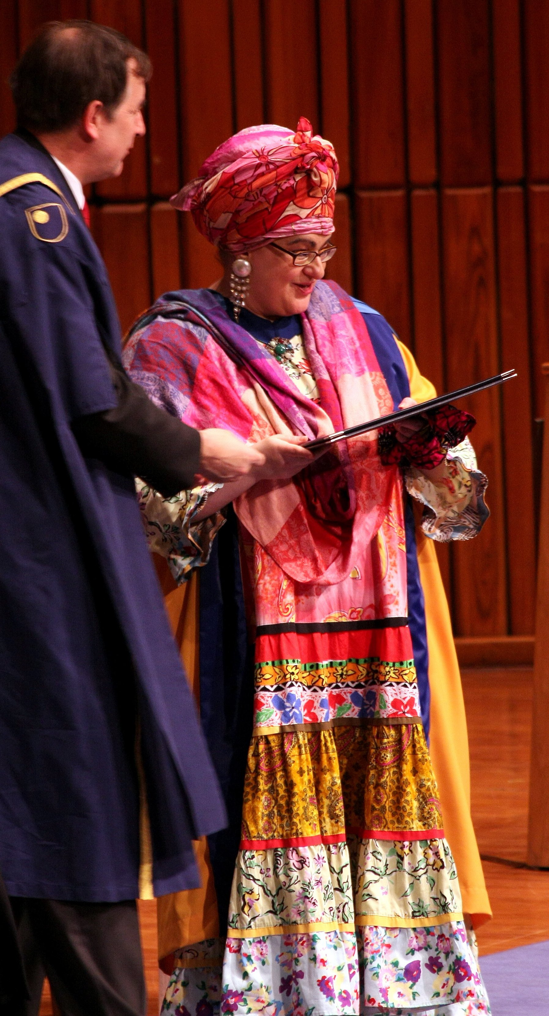 Camila Batmanghelidjh receiving her honorary doctorate from the Open University. Ceremony held at the Barbican Centre.